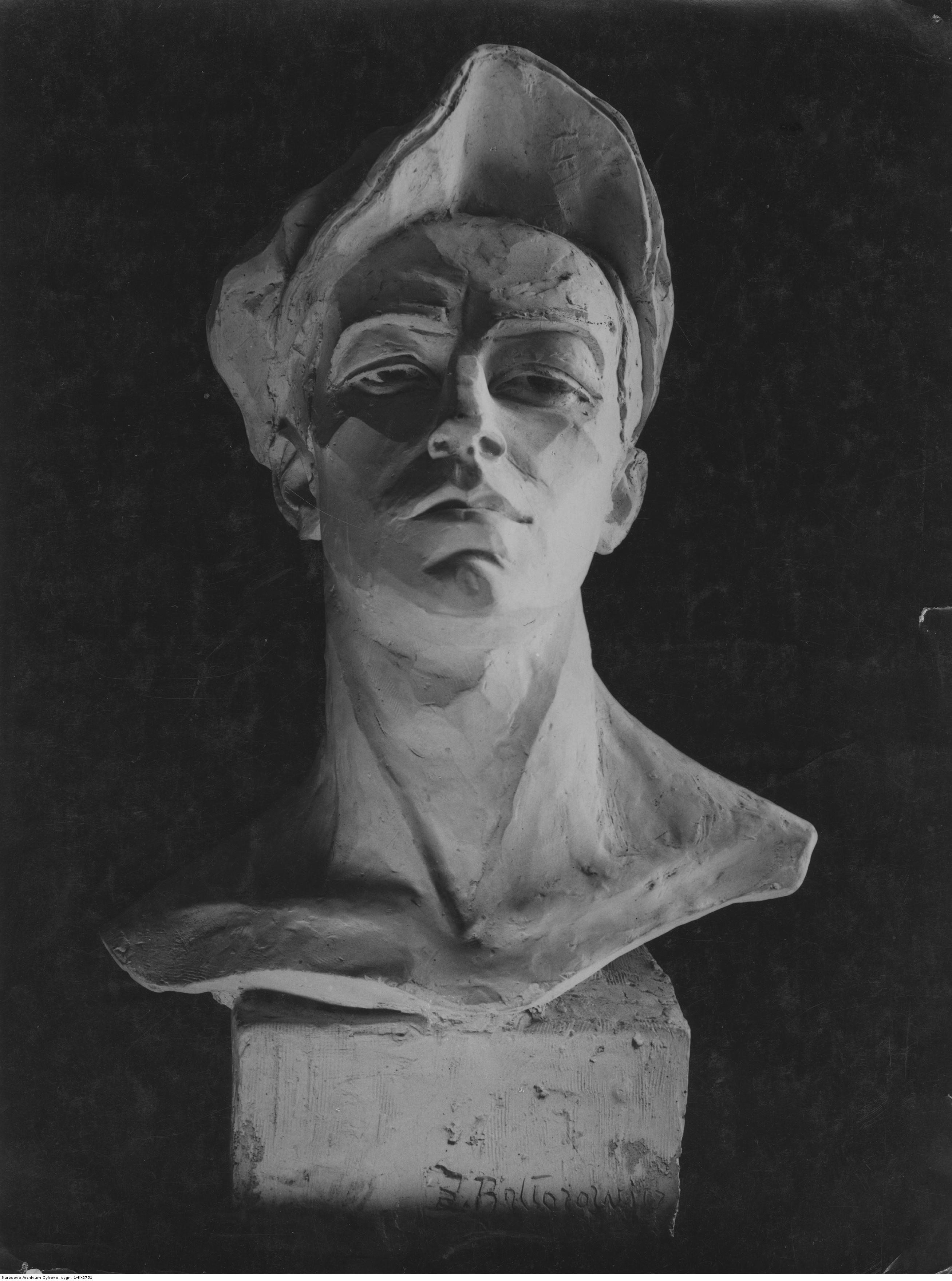 Sculpture by Zofia Dzielińska-Baltrowicz "Apache"